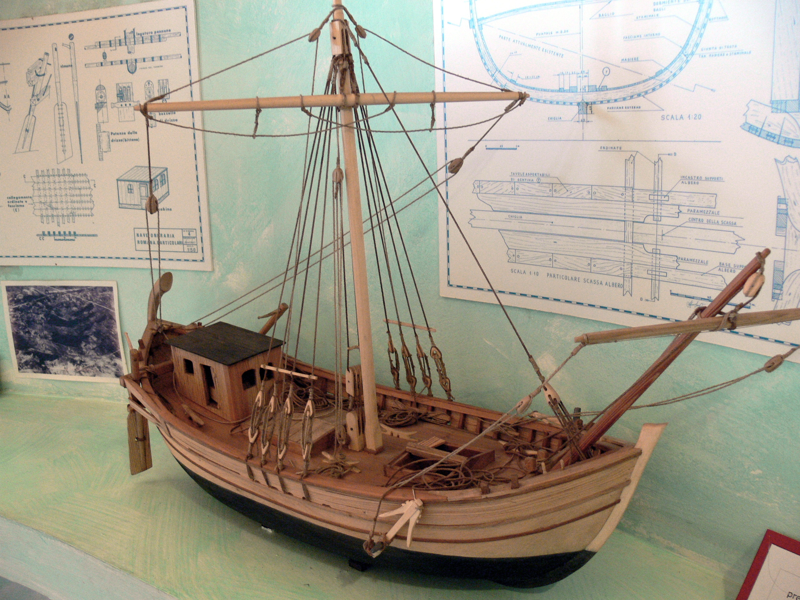 Marciana Alta ( Elba ). Local museum: Reconstruction of an ancient Roman transport ship sunk and found near Elba.